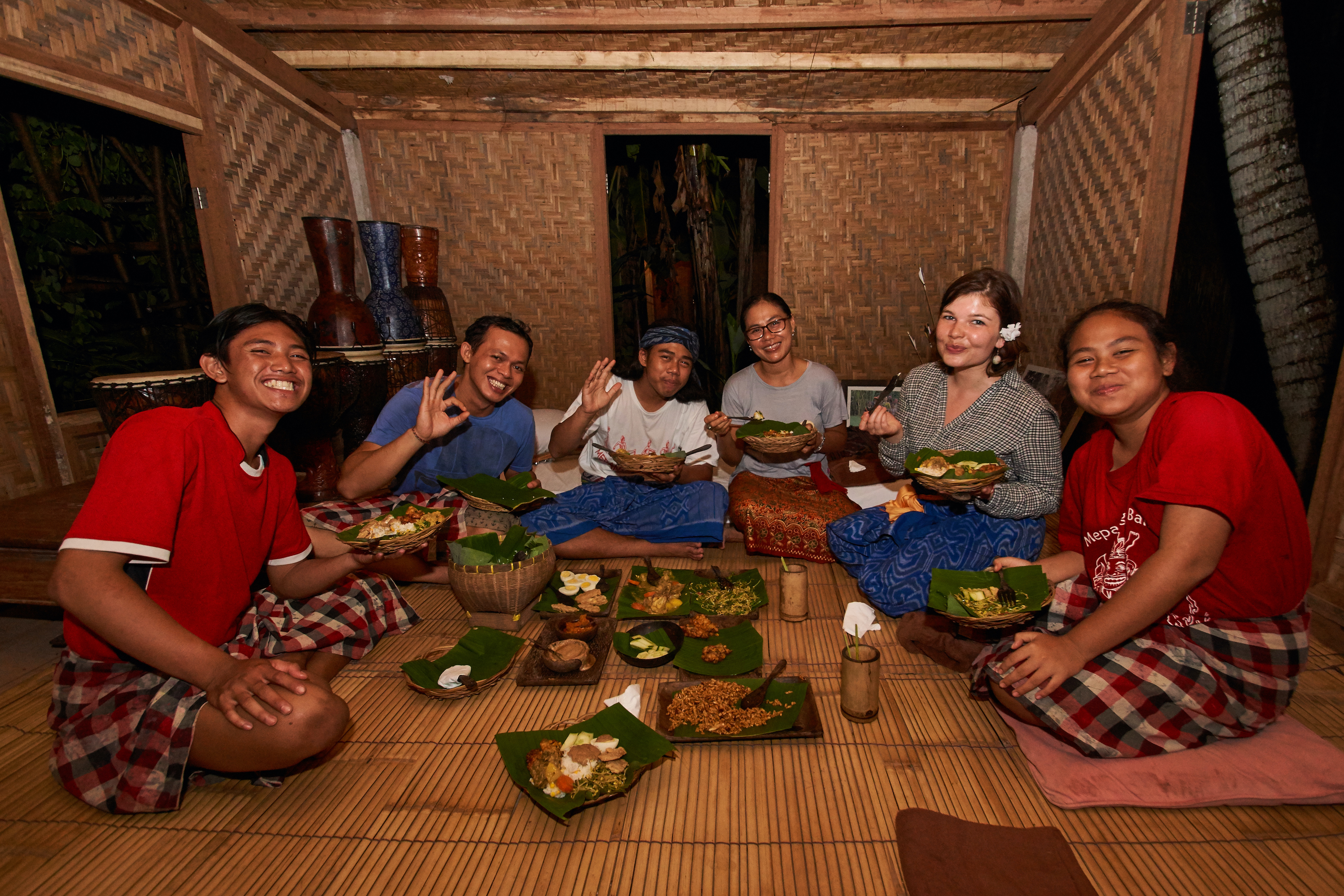 A group of people sitting on on the floor, sharing a meal in a home in Bali, Indonesia. Image from a Withlocals event